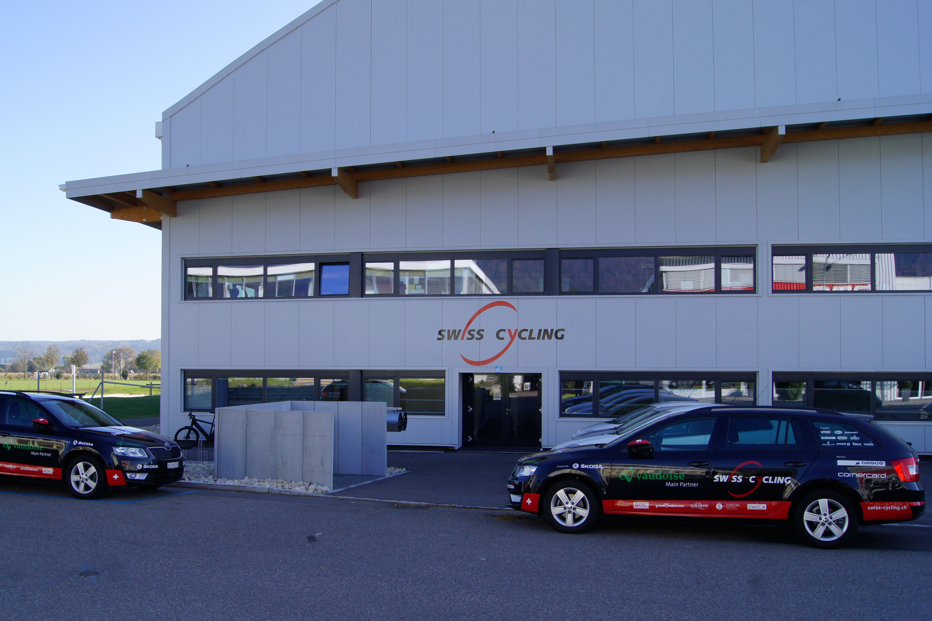 Geschäftsstelle Swiss Cycling, Velodrome Suisse, Sportstrasse 44, 2540 Grenchen